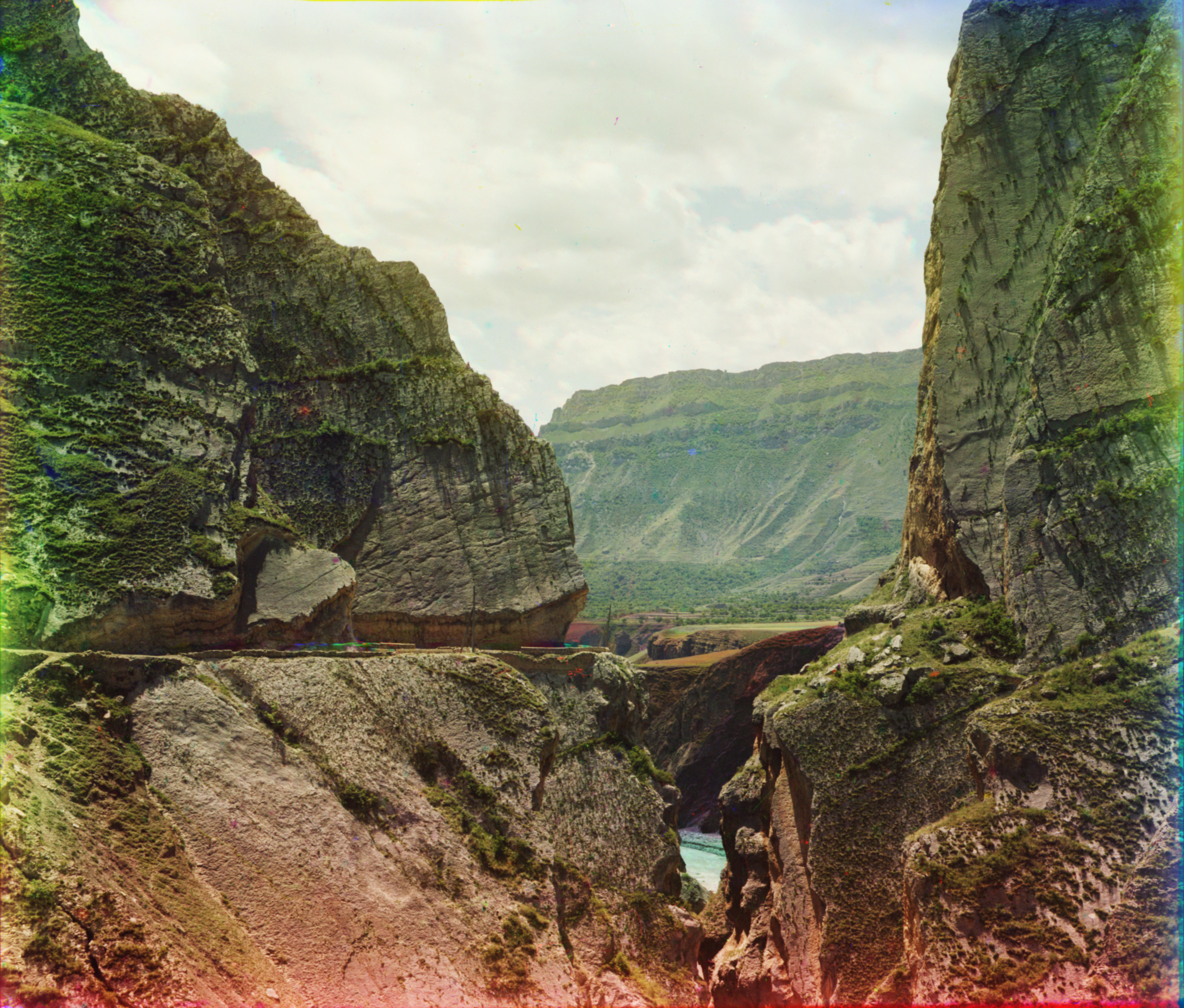 View of Saltinskoe (Salty) gorge in the Caucasus Mountains in Dagestan. Early color photograph from Russia, created by Sergei Mikhailovich Prokudin-Gorskii as part of his work to document the Russian Empire from 1904 to 1916.